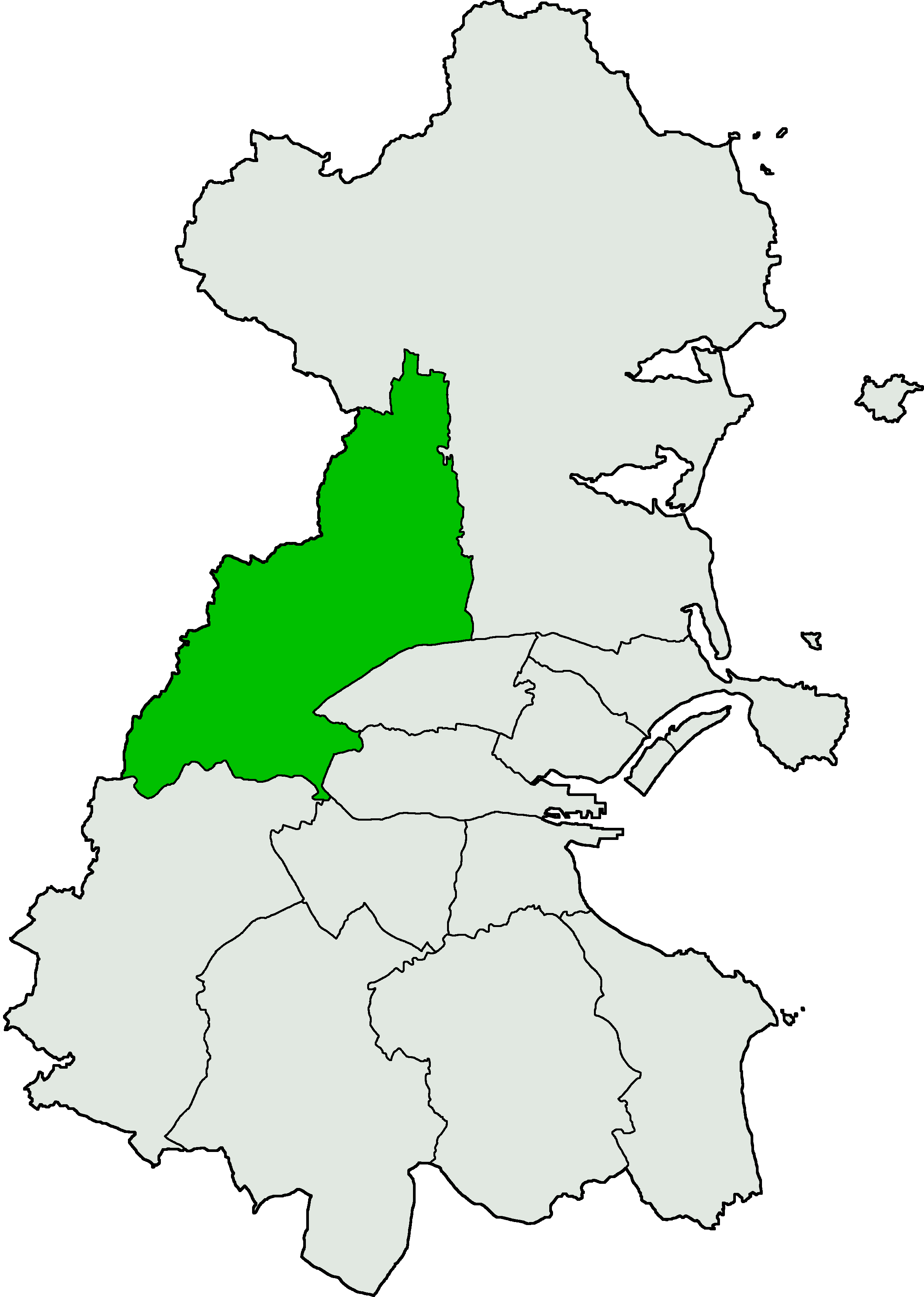 Category:Maps of Dublin